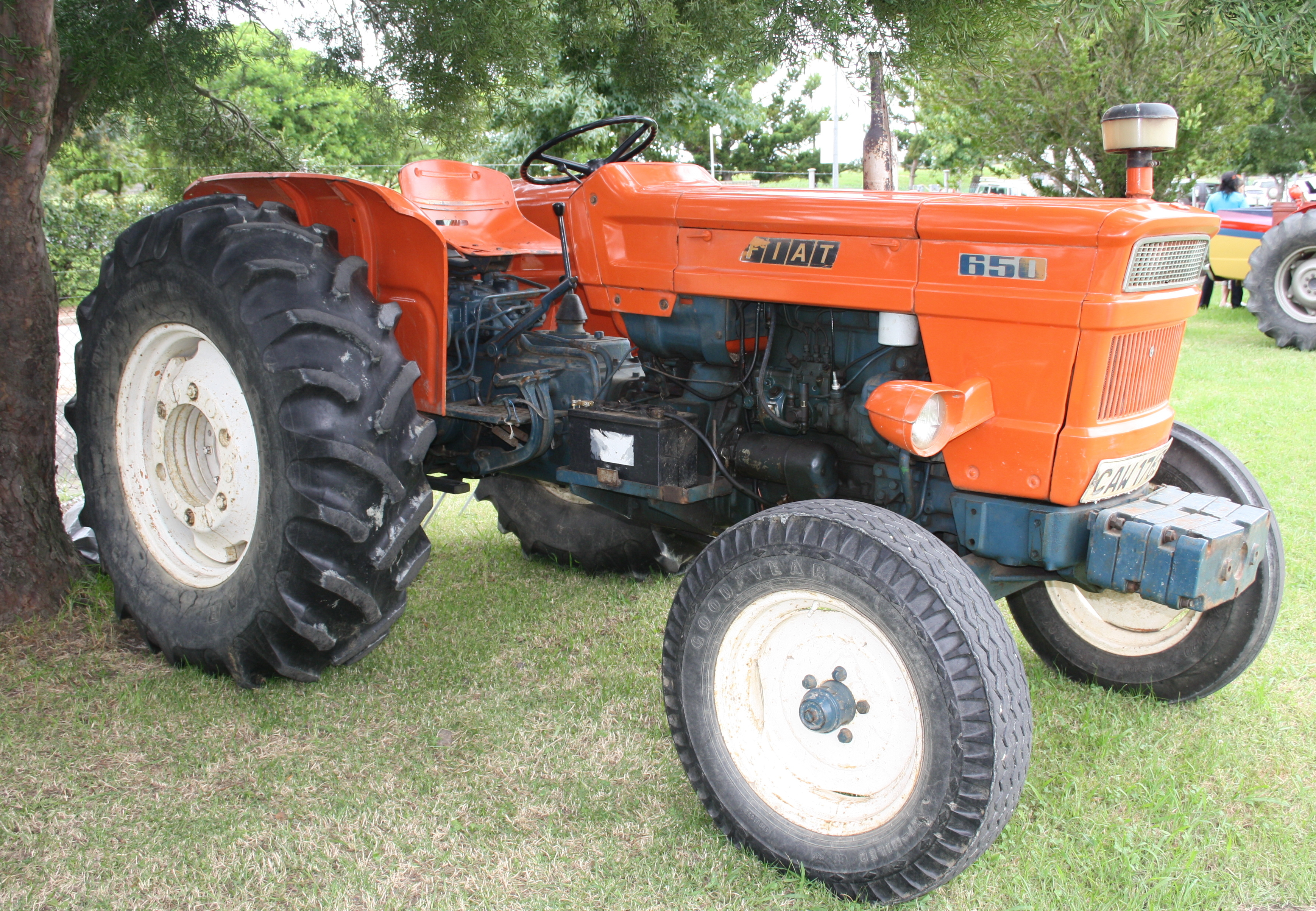 Fiat 650 tractor